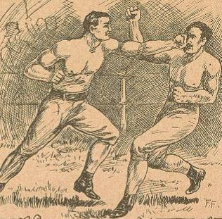 Black and white (yellow sepia) drawing of American boxer and heavyweight championship contender John Heenan being struck by English champion Tom King, both barechested in a prize ring